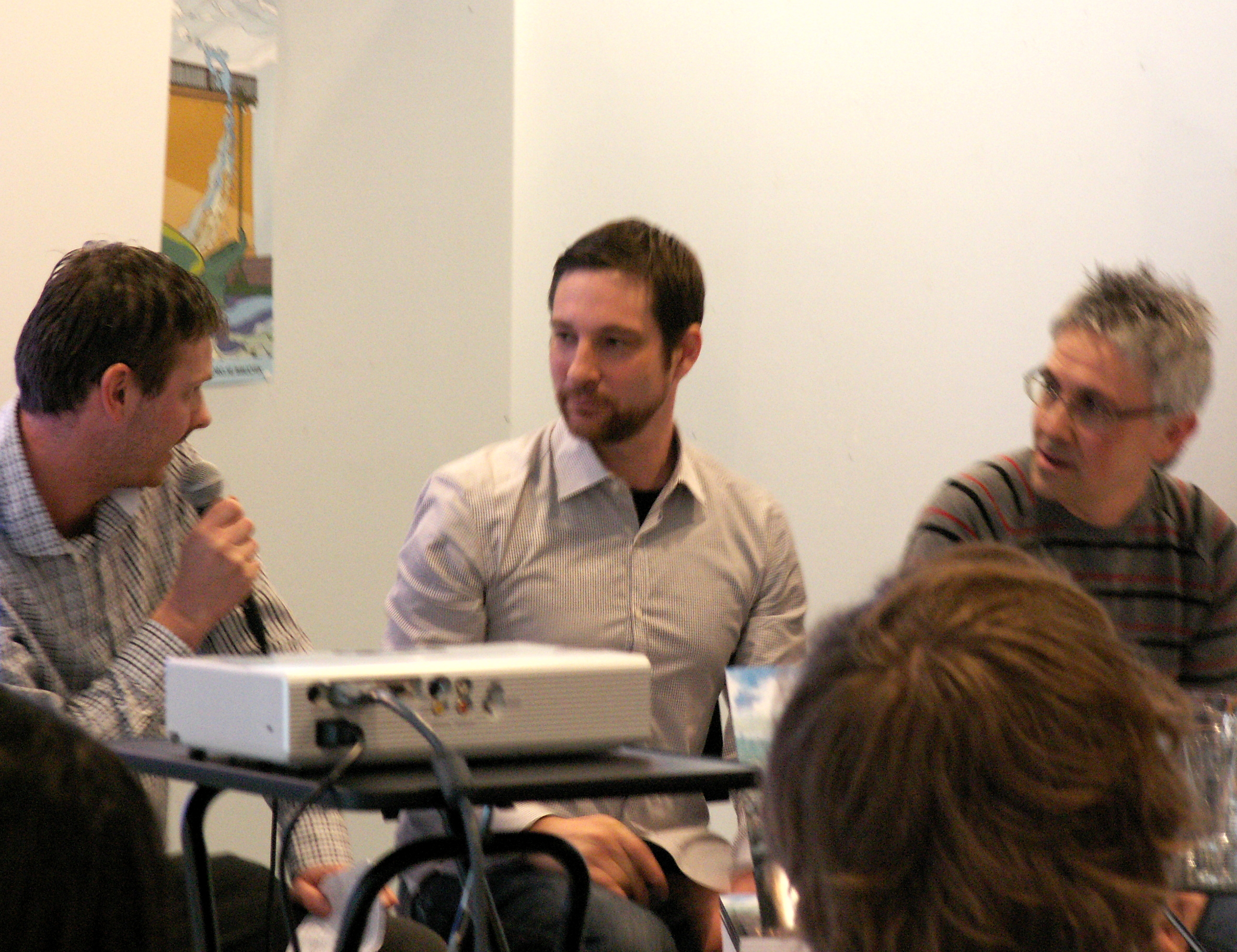 Jonas Anderson (Albumförlaget) talking with Sylvain Runberg and the interpreter/translator Stefan Carlsson, at Serieveckan 2010 in Göteborg.